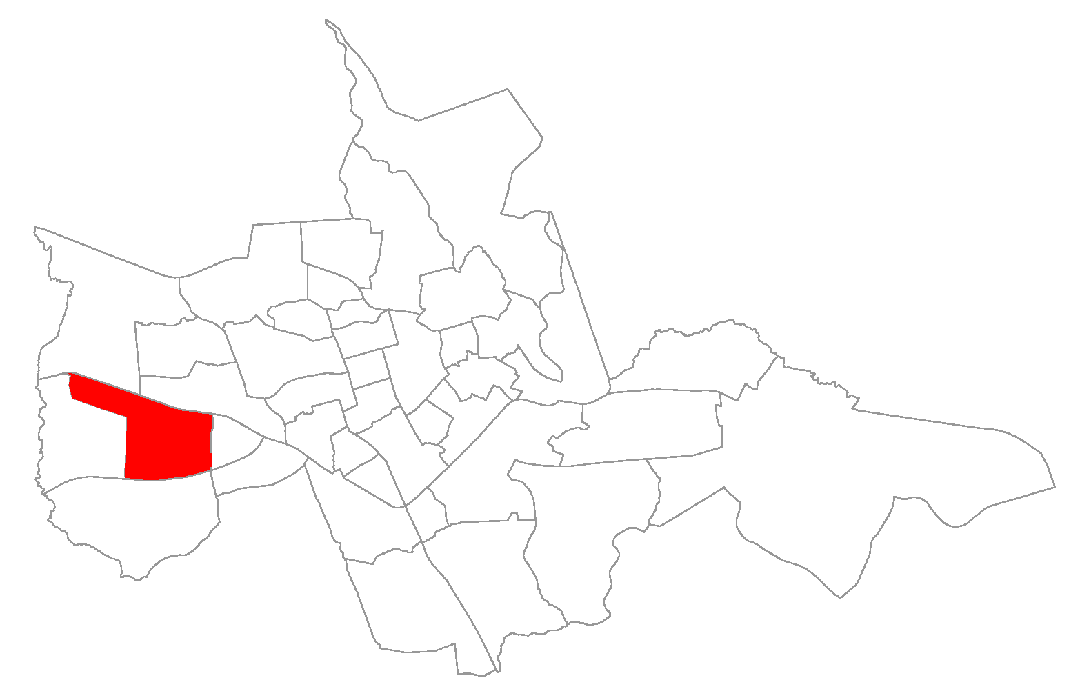 neighborhood/district of Santa Maria, Rio Grande do Sul